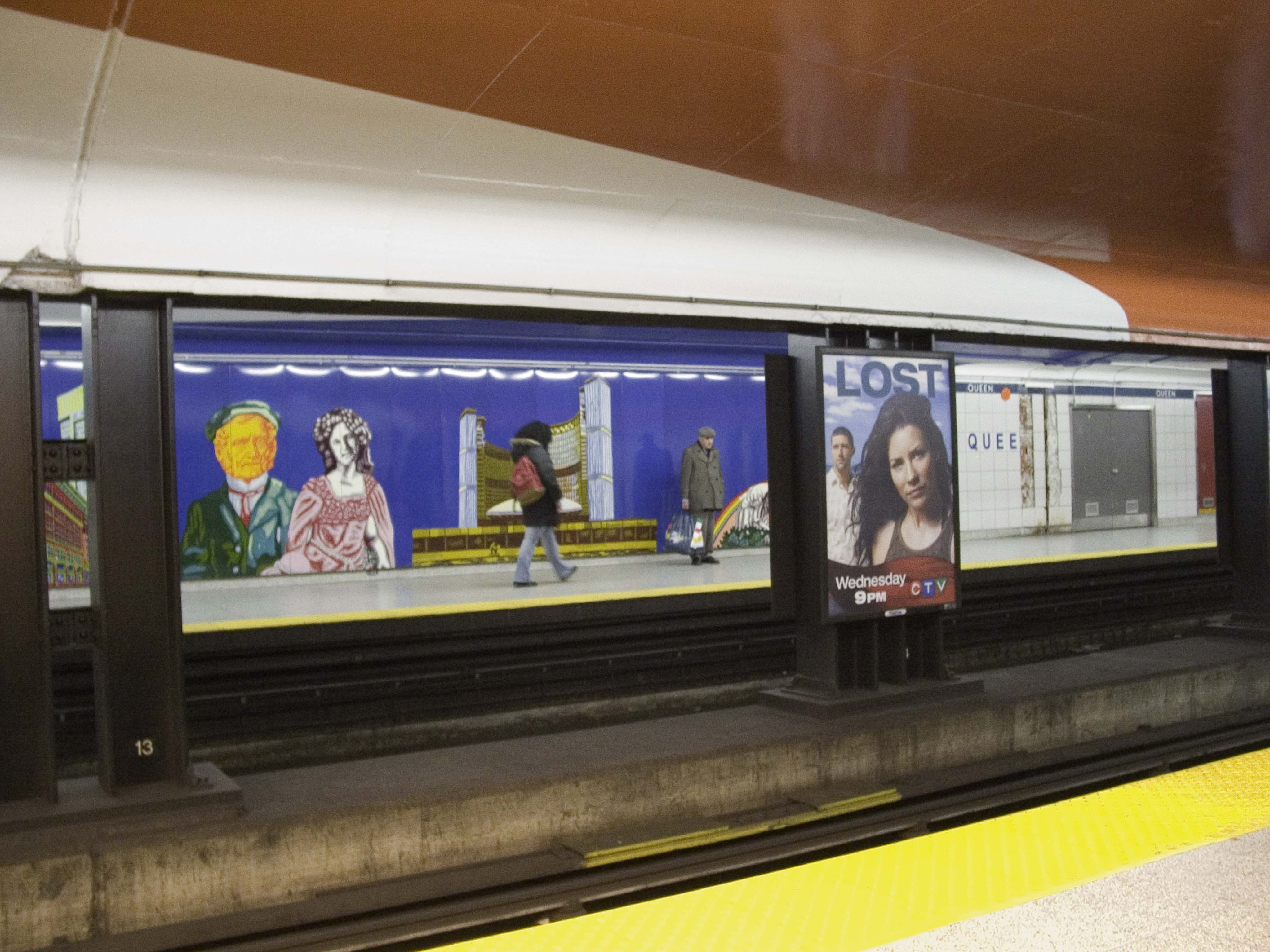 View of the mural at Queen subway station in Toronto